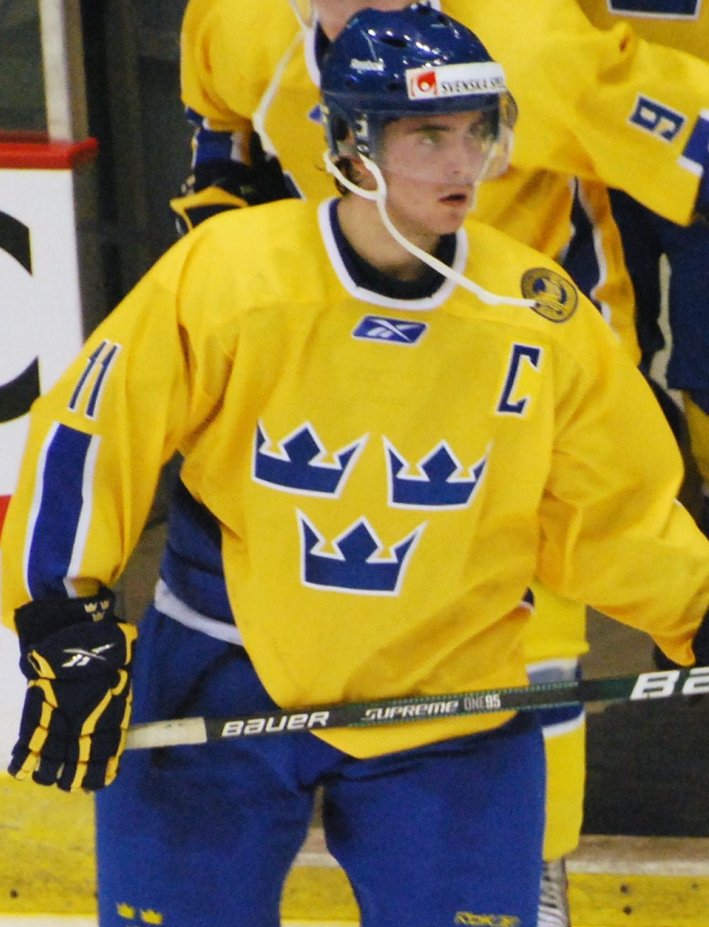 Team Sweden captain Marcus Johansson takes the ice for an exhibition game against Team Canada in Regina, SK prior to the 2010 World Junio Ice Hockey Championships.